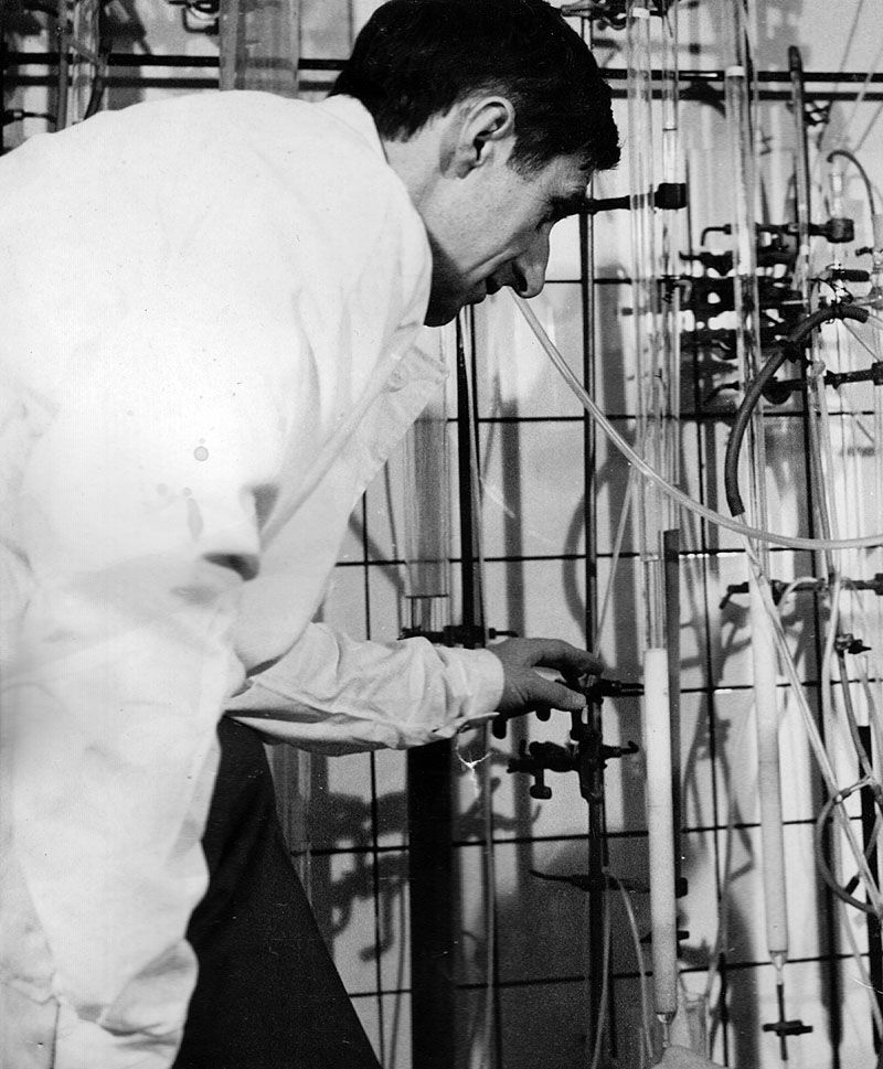 Zdenek Matejka at CKD Dukla